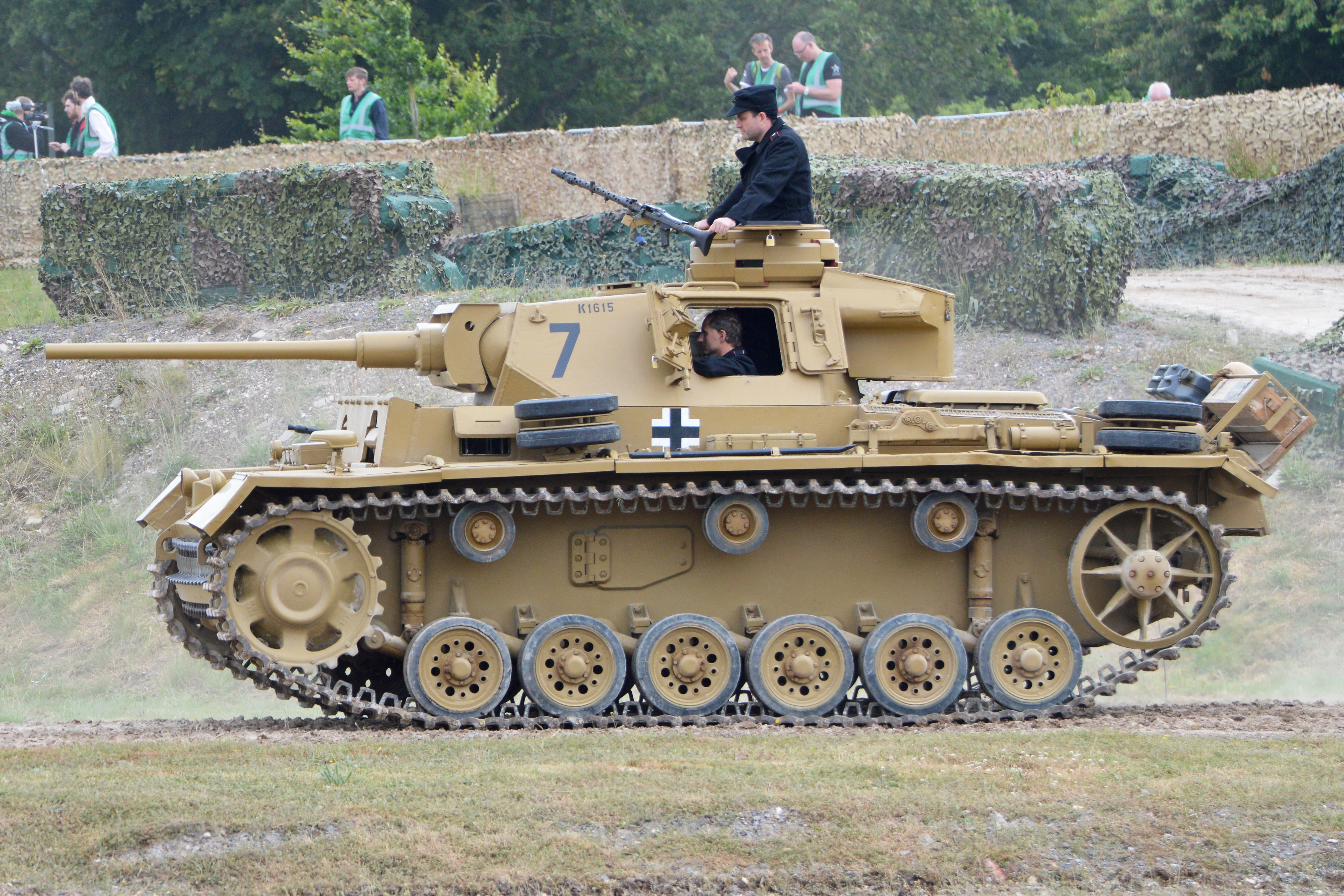 German WW2 era Medium Tank Official designation:- Sd.Kfz.141 Panzerkampfwagen III Built:- 1939-1943. Total production:- 5774. Main armament:- 5cm KwK 39 L/60 tank gun. This is an early production Ausf L, modified for ‘tropical’ use and built by MAN in June 1942. It was sent by rail direct from Nürnberg to Naples and was then shipped aboard the SS Lerica to Benghazi, arriving on 18th July 1942. There it was issued to 7 Kompanie 8th Panzer Regiment, 15th Panzer Division, and probably fought at Alam Halfa. After capture it was shipped to the School of Tank Technology at Chobham Lane, Chertsey, Surrey, before being moved to Bovington. It was put on the museum books in 1951. Now restored to running order and painted in its original markings, it is a regular performer in the Kuwait Arena and is seen during TankFest 2017. ‘The Tank Museum’, Bovington Camp, Dorset, UK. 24th June 2017